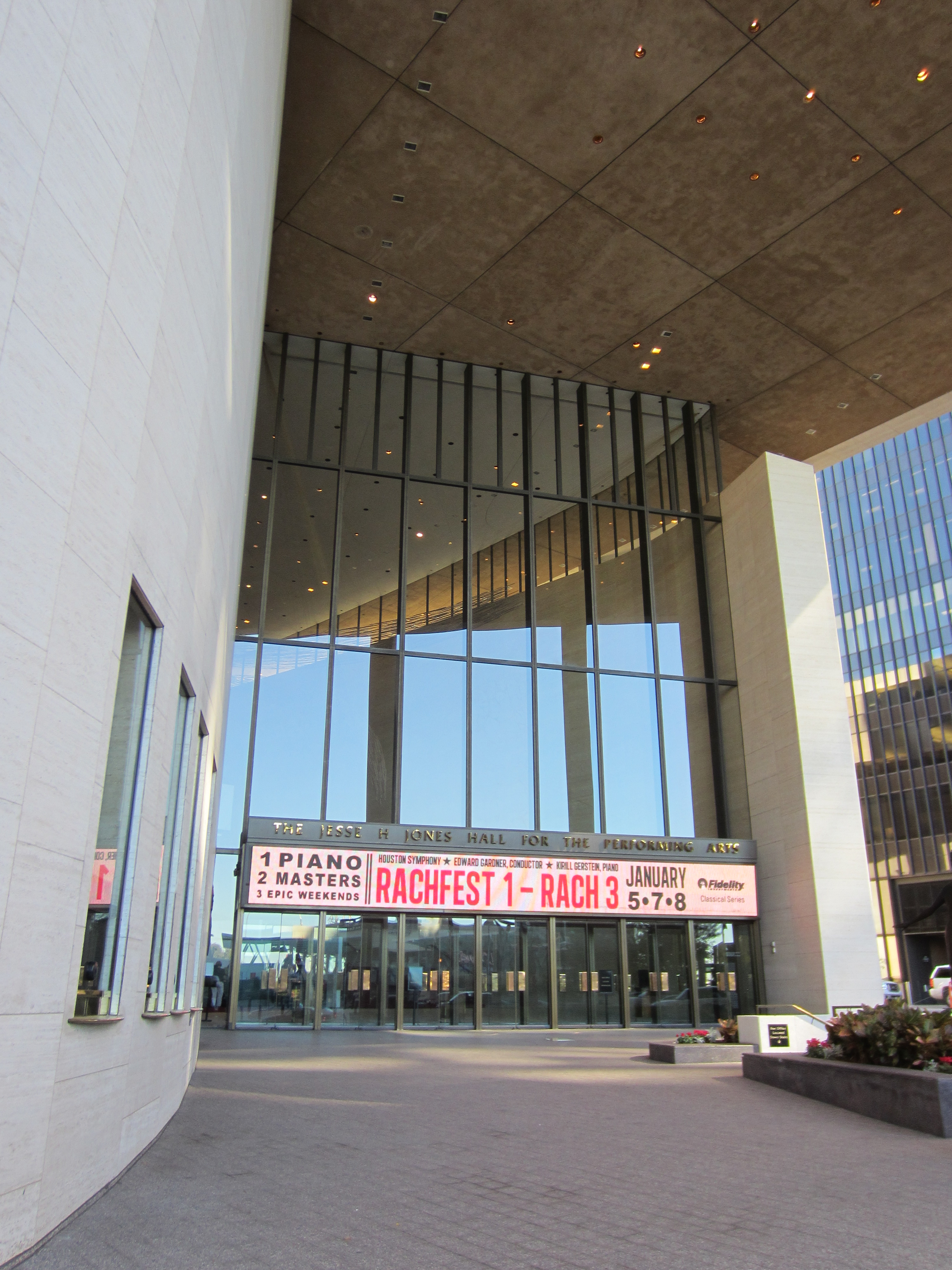 Entrance to Jones Hall in Houston, Texas in January 2012